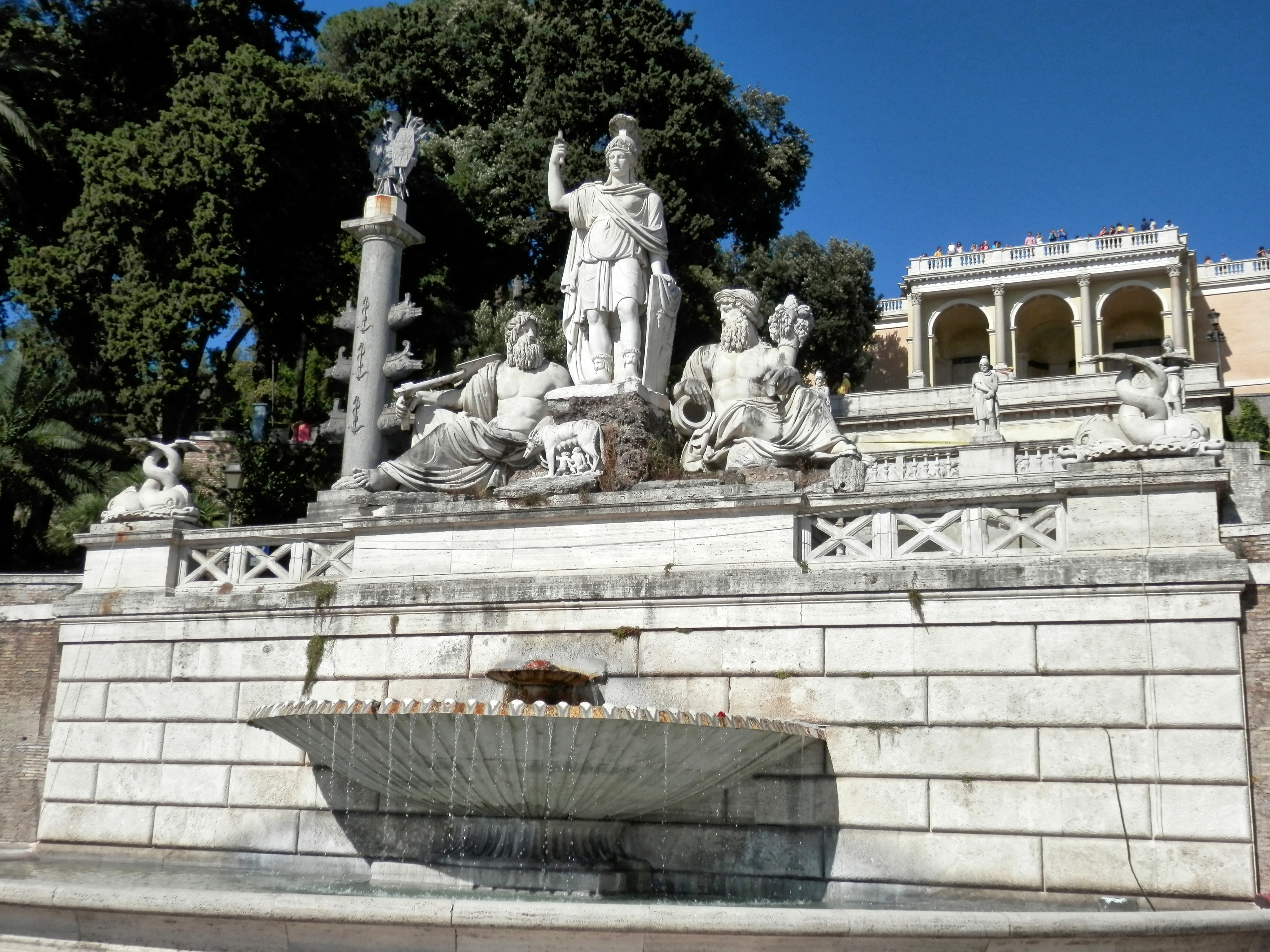 Rome, Piazza del Popolo and del Pincio fountain